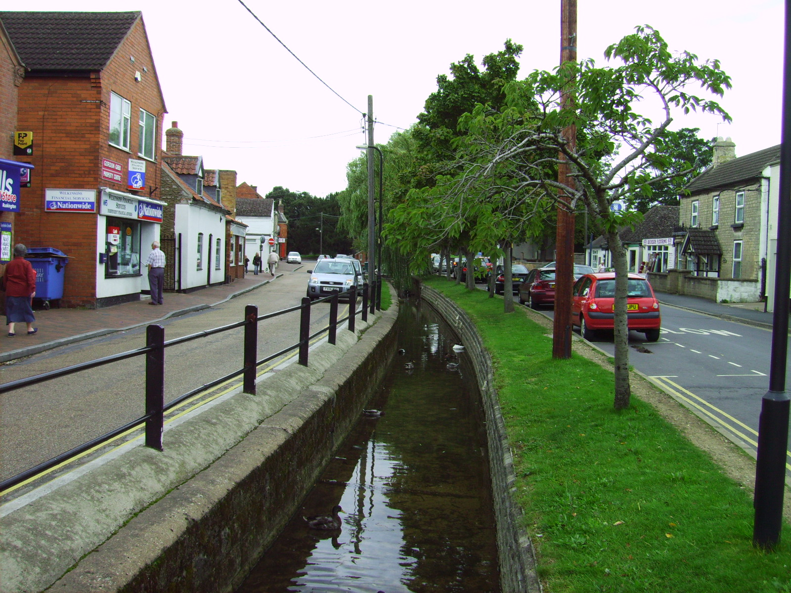 Ruskington Beck, looking east from the road bridge.